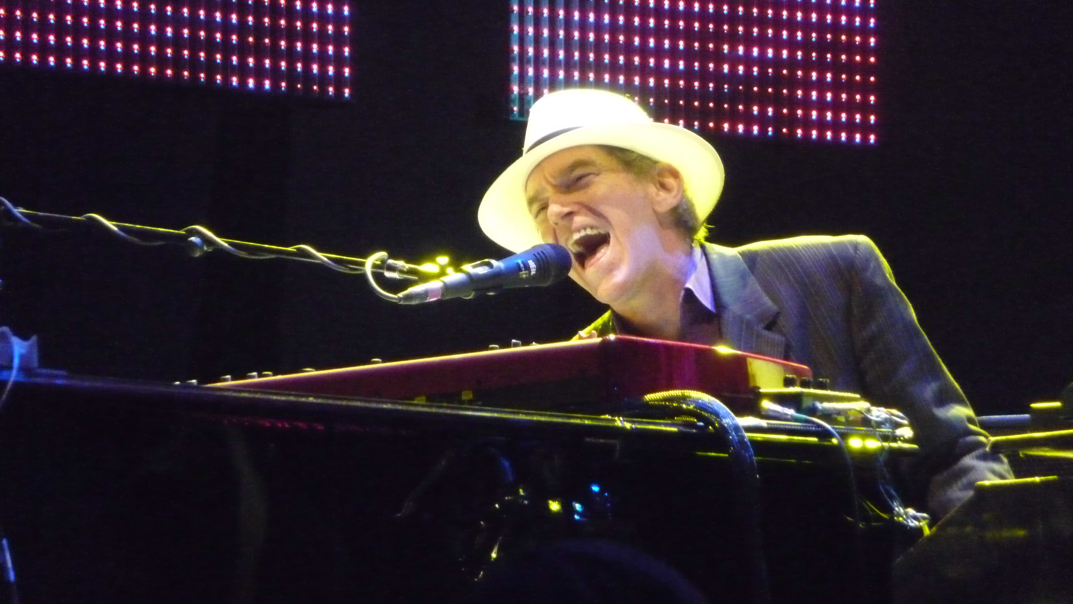 Benmont Tench on keyboards: Tom Petty & The Heartbreakers, Hollywood Bowl, October 1, 2010